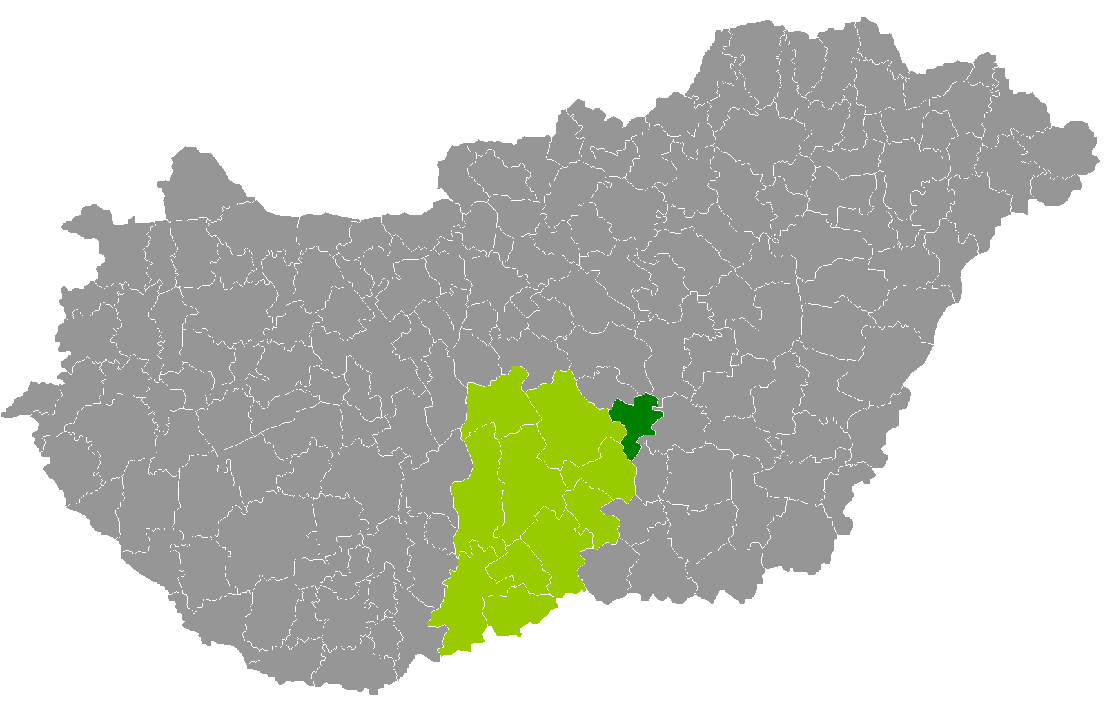 Location of Tiszakécske District, Bács-Kiskun, Hungary